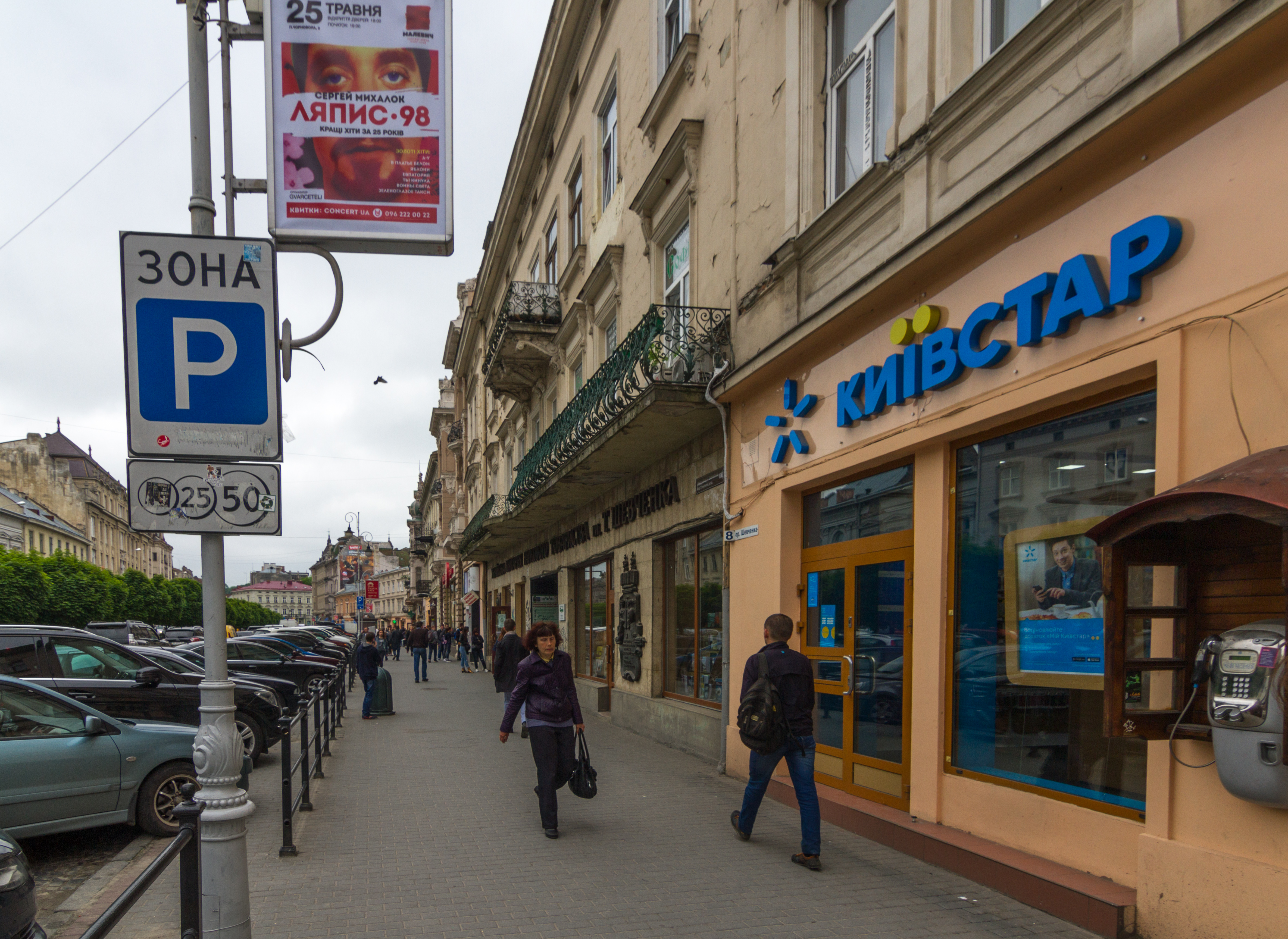 Kyivstar office on Prospekt Shevchenka in Lviv